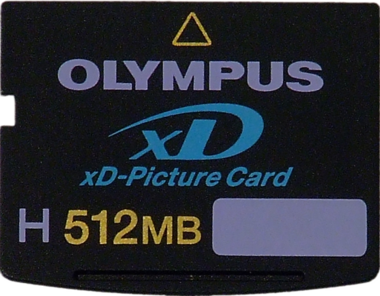 xD flash memory card, type H, 512M.